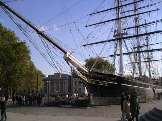 The Cutty Sark. Taken by User:Robert Merkel in October 2003, and placed in the public domain (from en: wp ).